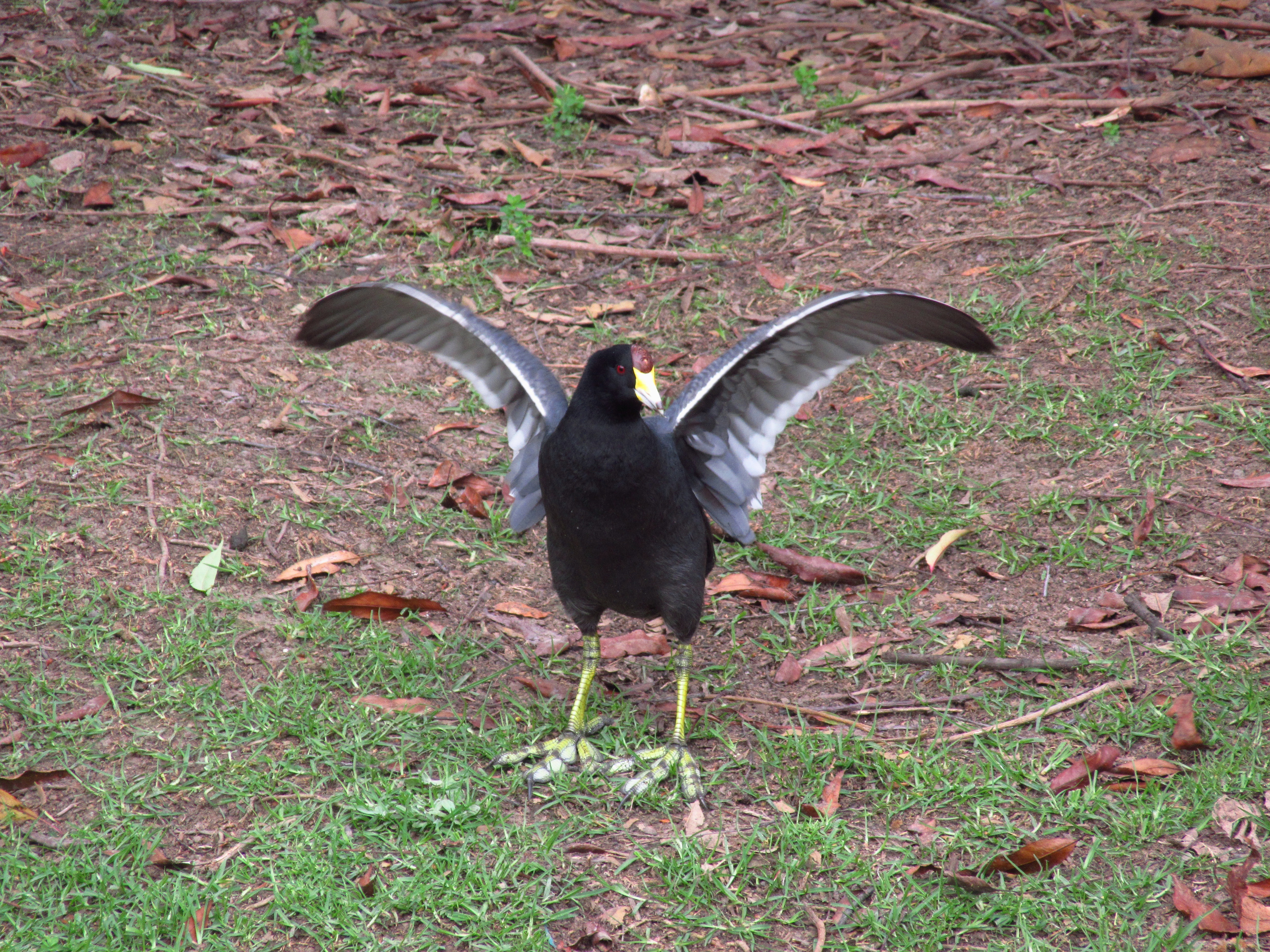 Bogotá